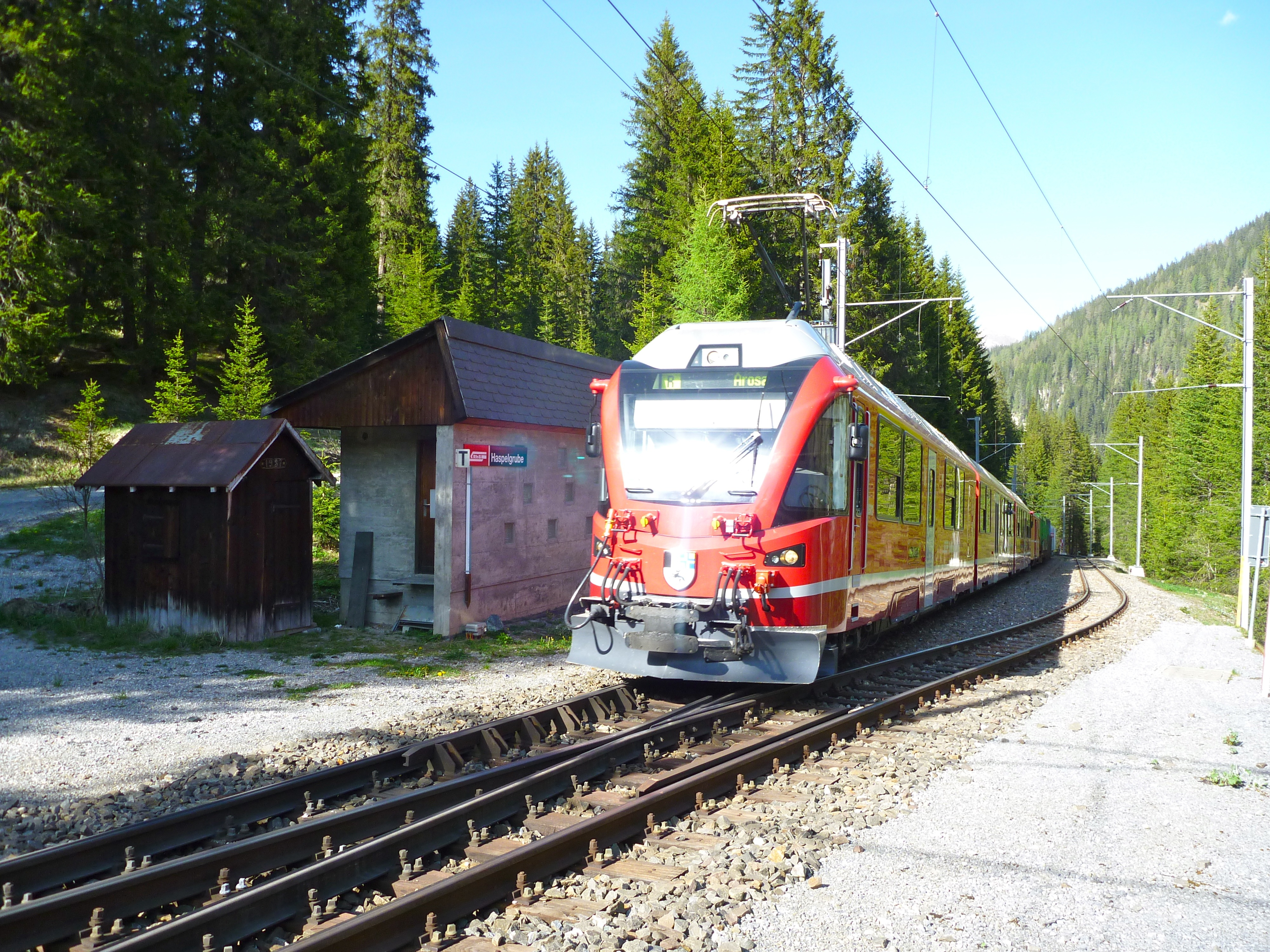 Chur-Arosa railway, crossing station Haspelgrube